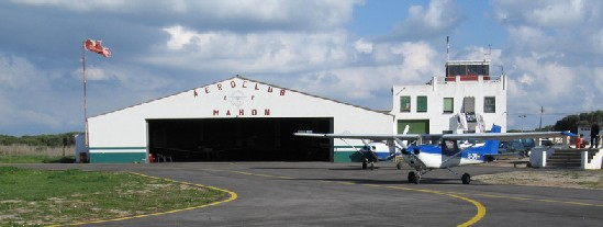 Menorca Airclub.